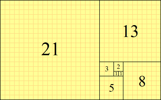 Fibonacci number,approximate Golden rectangle by 34 times 21